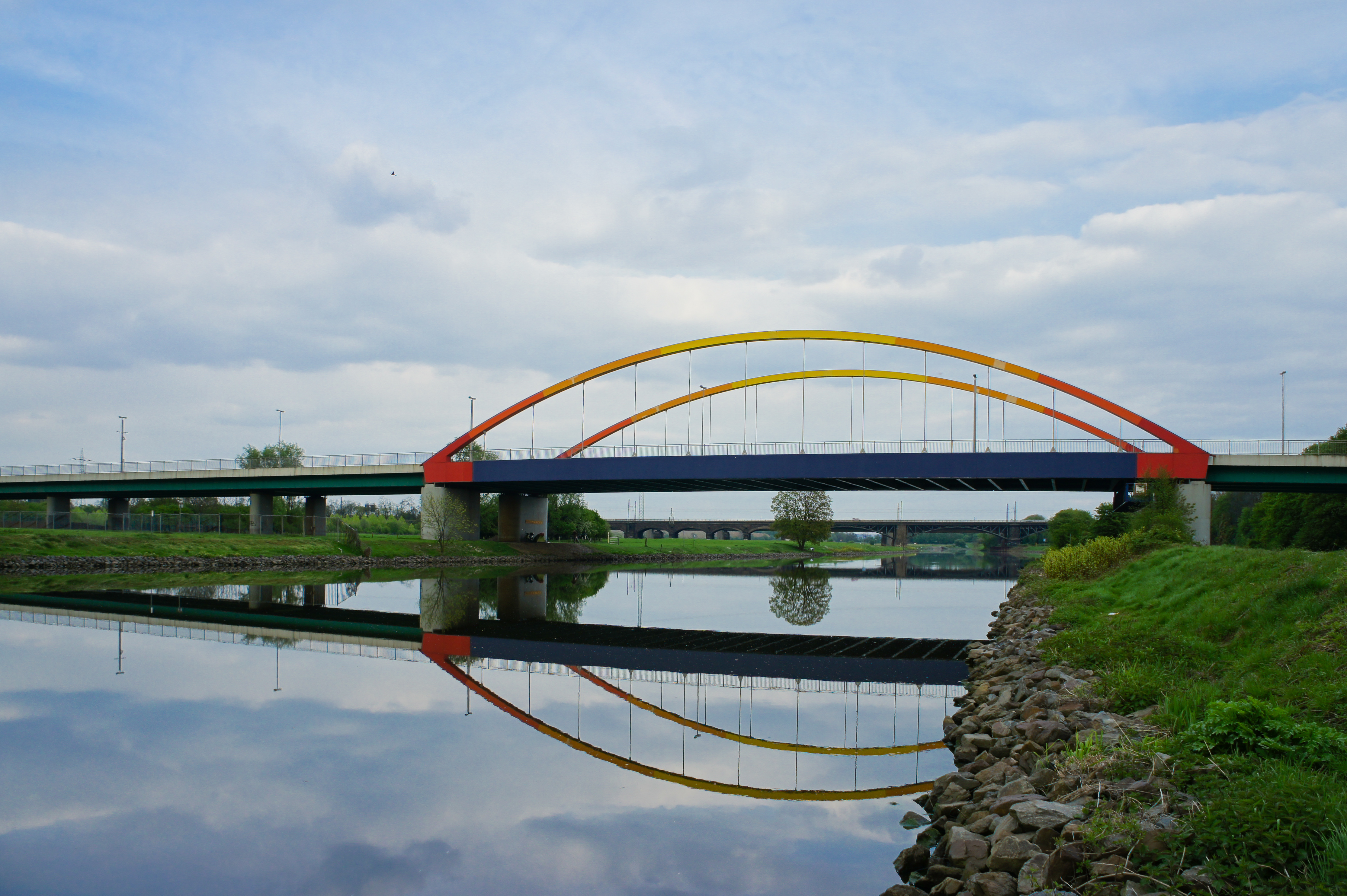 Bridge ("Aakerfährbrücke") over the Ruhr at Duisburg between Duissern and Meiderich